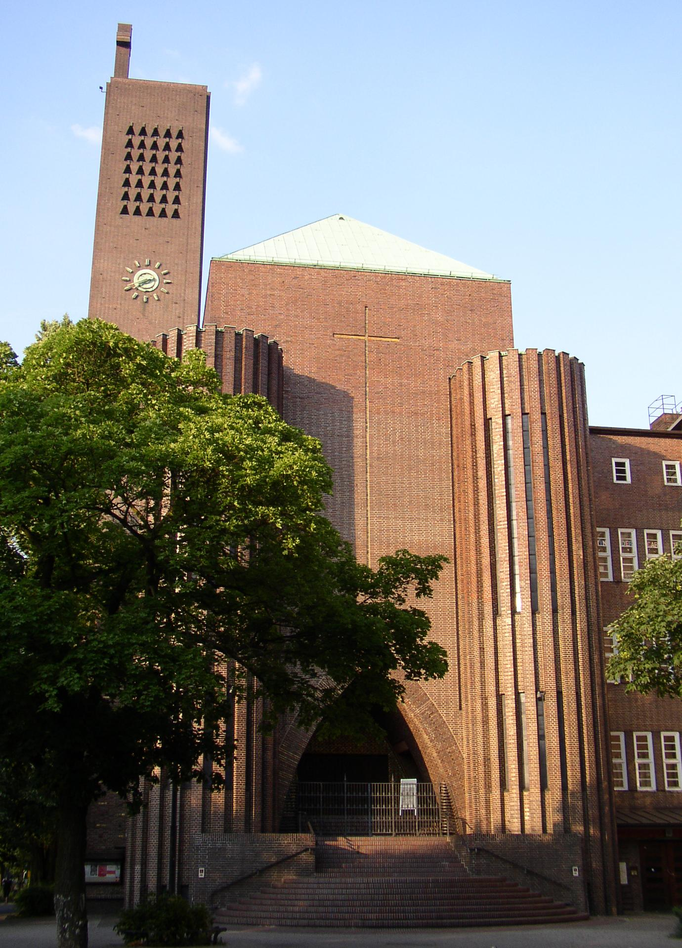 Church in Berlin-Wilmersdorf, Germany